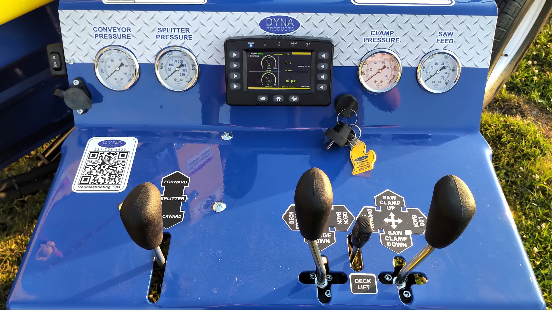 Engine Control on a 2020 DYNA Firewood Processor